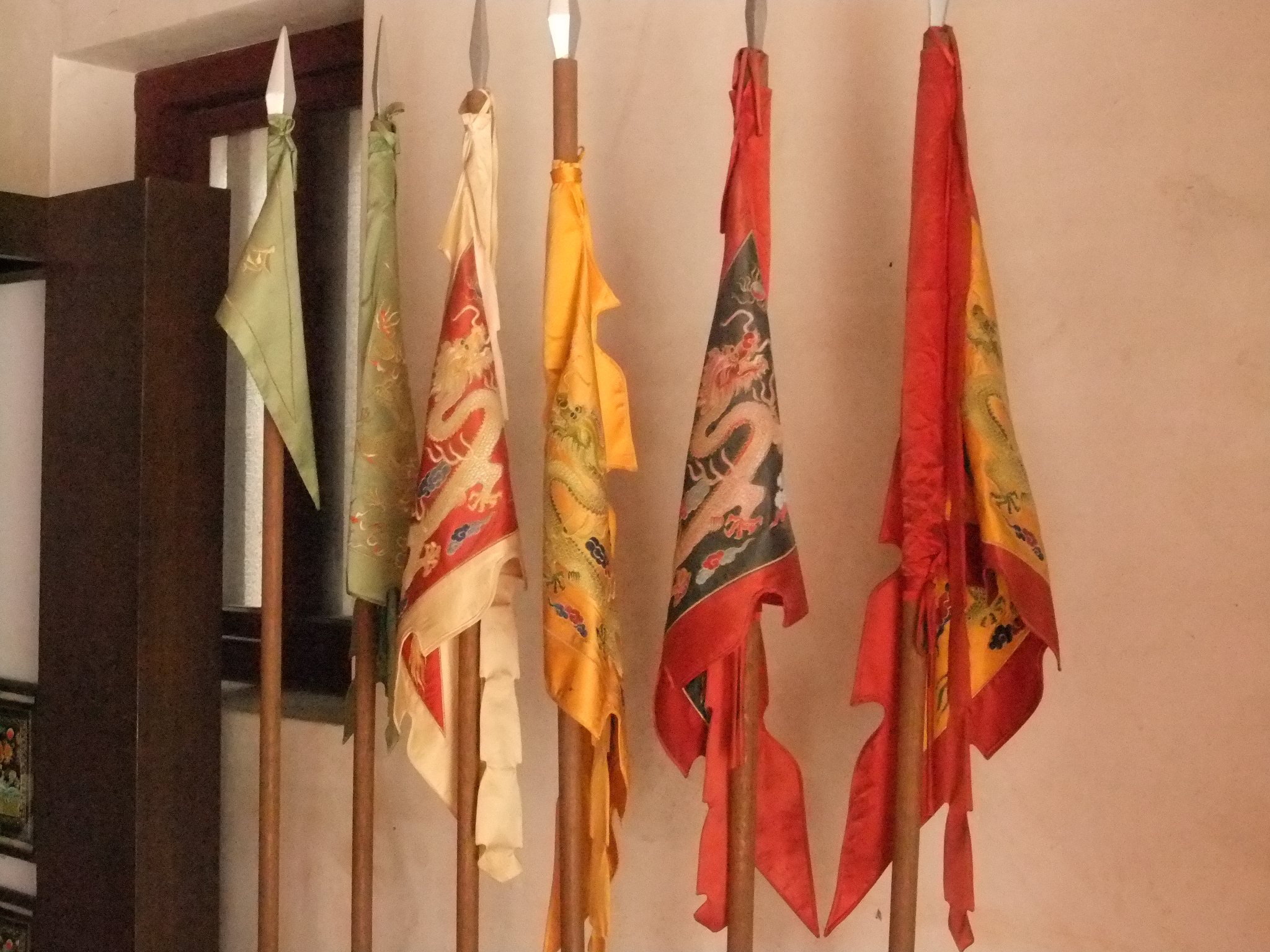 Kinmen Qing Military Governor's compound in Jincheng Town, now a museum